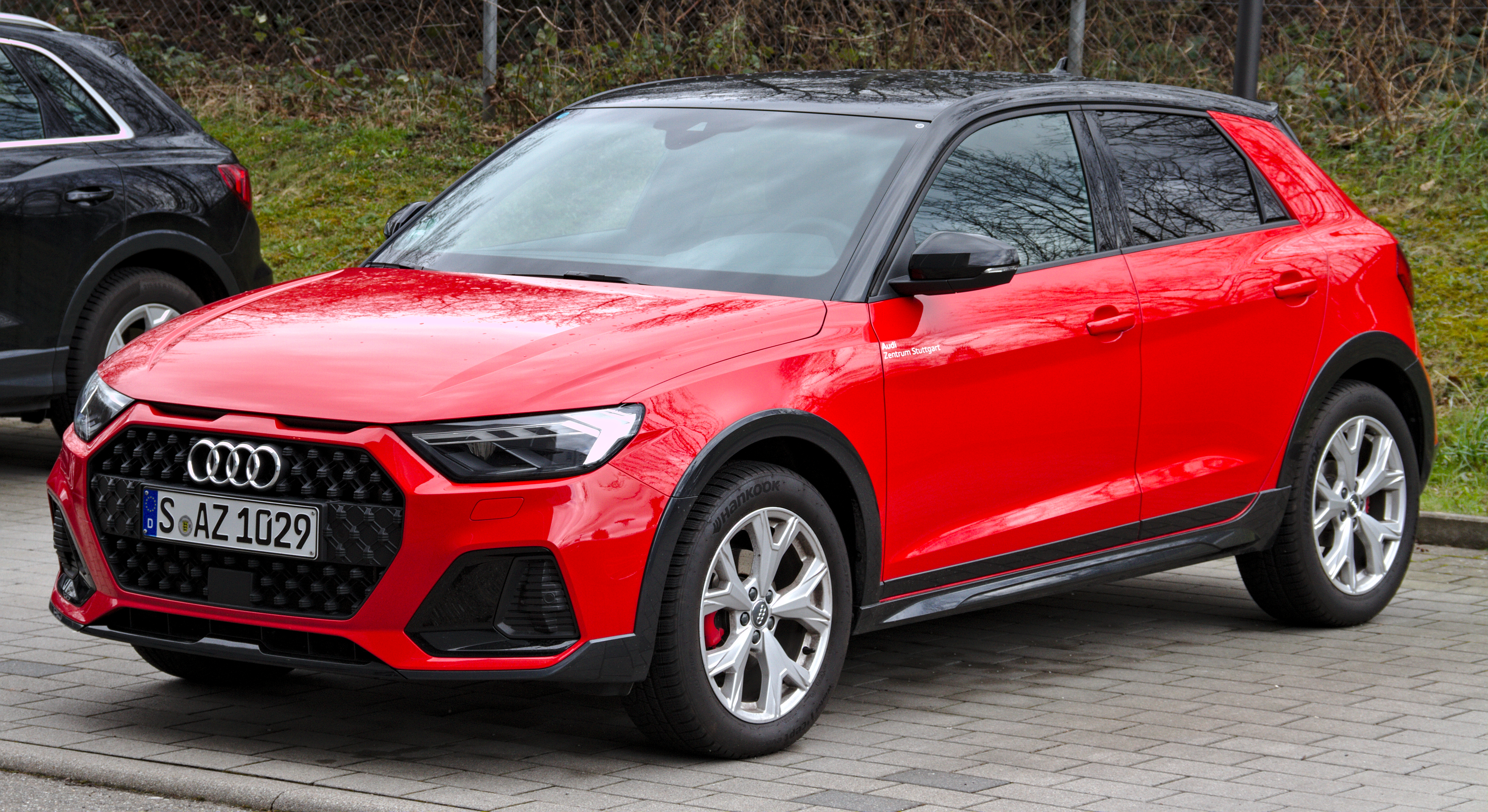 Audi_A1_citycarver in Stuttgart-Vaihingen